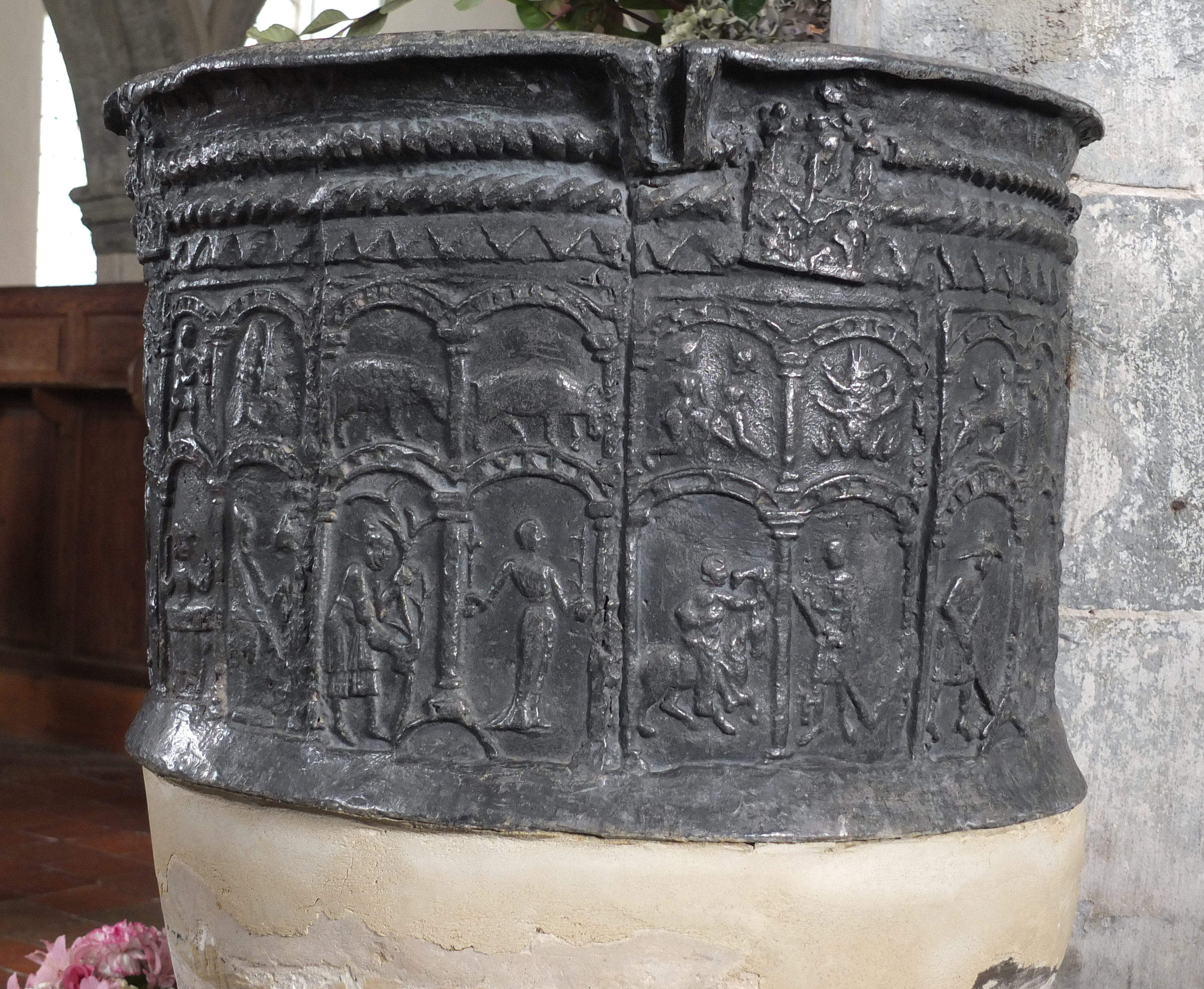 Lead baptismal font in St Augustine's parish church, Brookland, Kent. Romanesque, made about 1200. It features Zodiac signs and monthly labours. The top band of reliefs show the signs of the Zodiac, whilst the arcades underneath contain representations of a typical activity for each month. Eight of the Zodiac signs are repeated, giving two bands of 20 images each. Show here are "Aries", Pruning, "Taurus", (Venus) Goddess of Fertility, "Gemini", Hawking, "Cancer", Scything